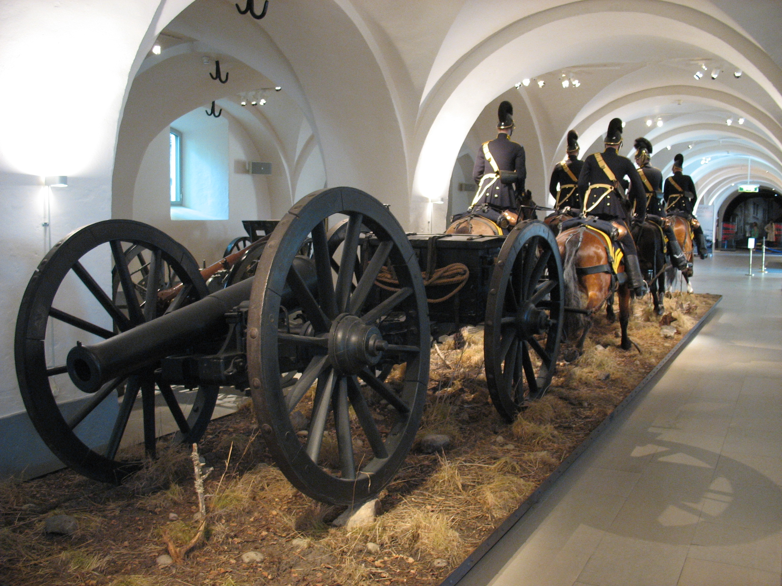 A full-scale display of Swedish horse-drawn artillery from Wendes Artilleriregemente, with an artillery piece that was used up to the mid-19th century, and uniforms from around 1850 (originally in the Army Museum in Stockholm but now in the Artillery Museum in Kristianstad, Sweden). English translation of the accompanying caption in